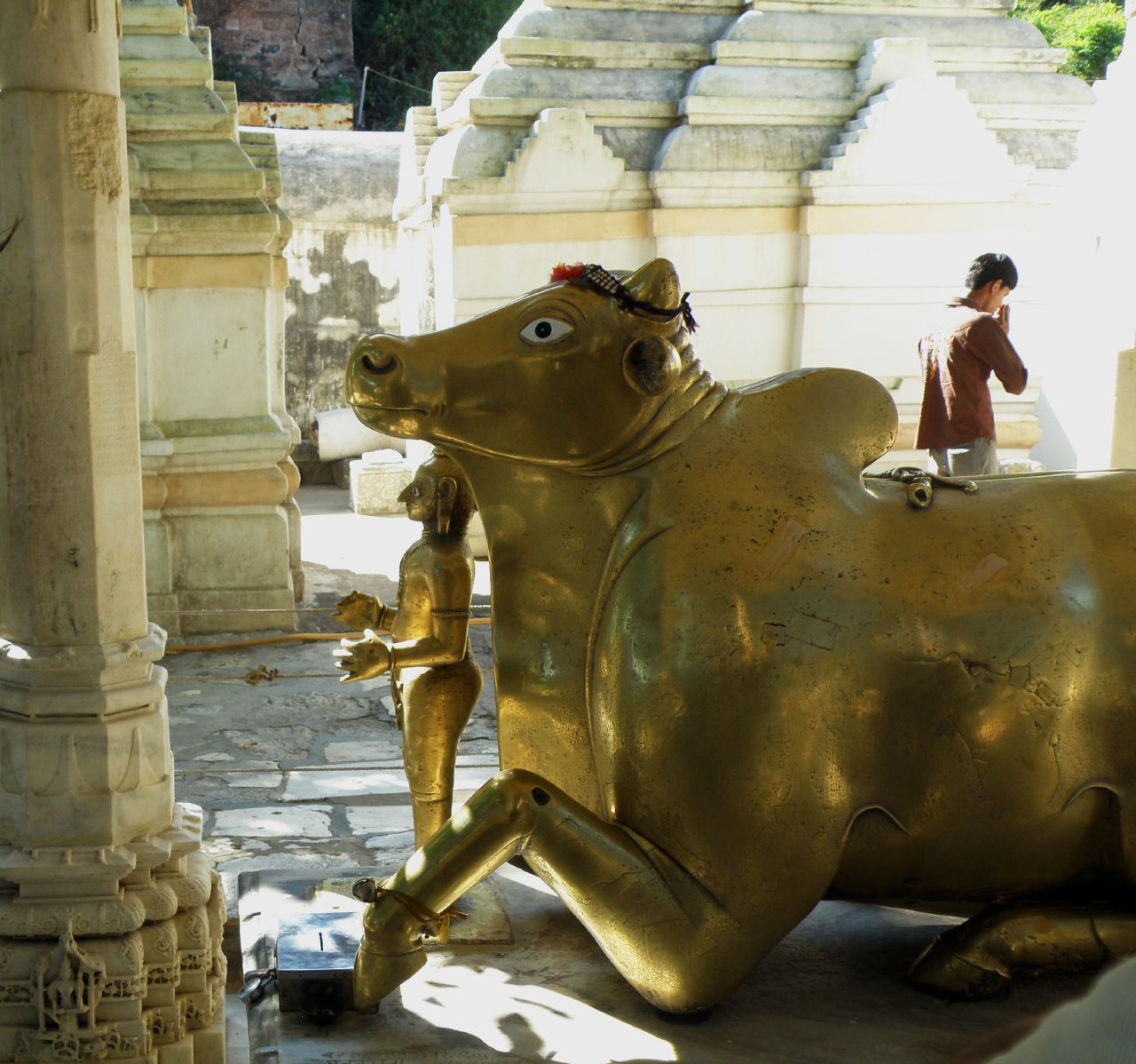 From what I could gather, Karan Singh told us that this statue of Nandi the bull is made from an alloy of gold, silver, copper and some other stuff which I don't remember. He further said that the hole in Nandi's leg was made by an invader while trying to take the statue from the temple by force.